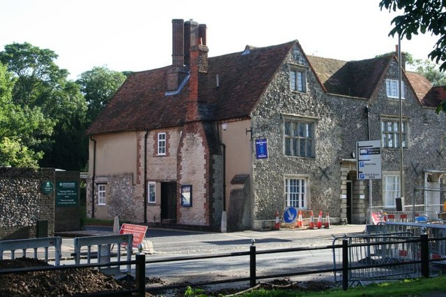 Flint House, 52 High Street, Wallingford, England: a 16th-century building that houses Wallingford Museum.